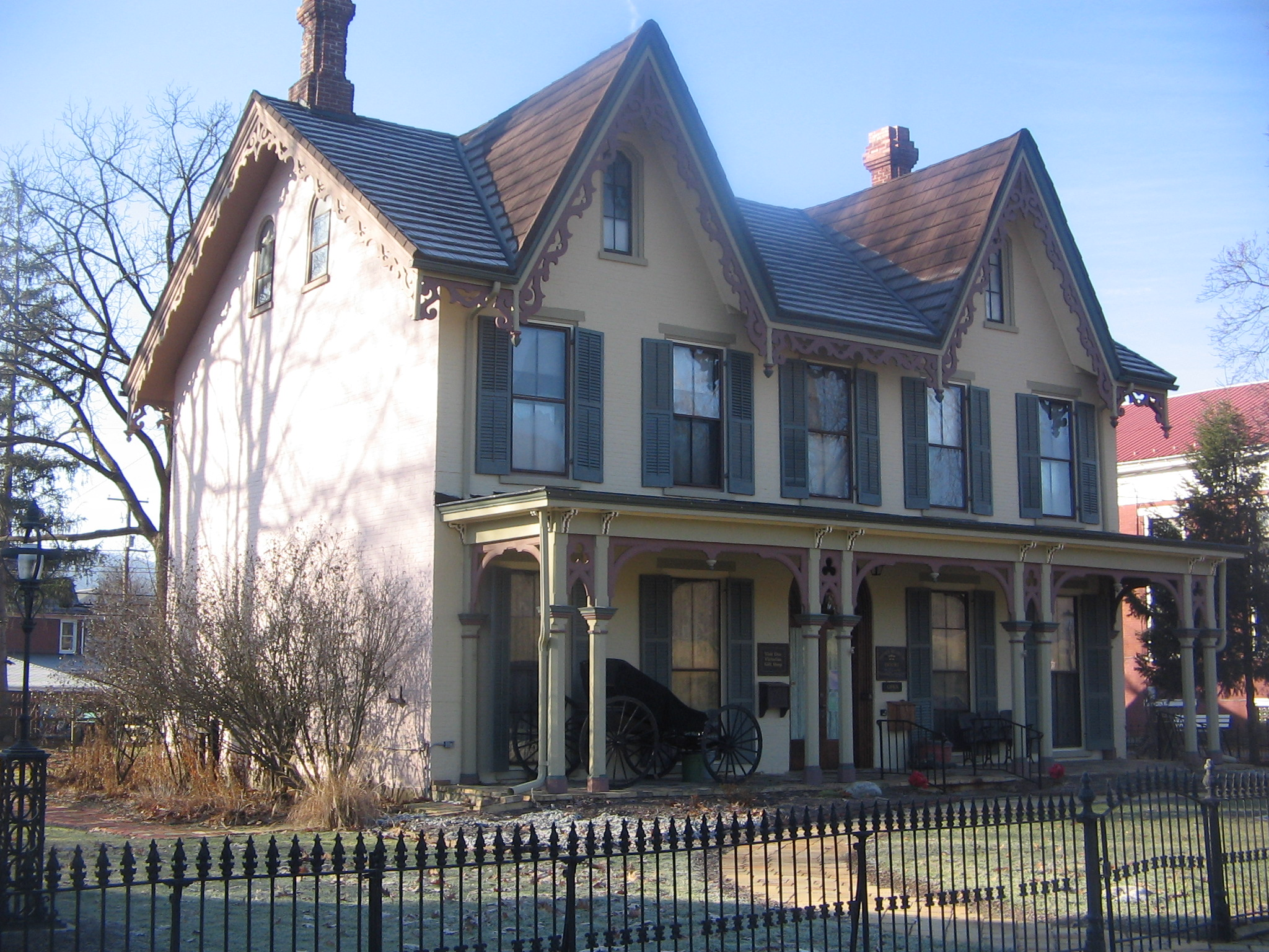 Heisey House Museum in Lock Haven, Pennsylvania in the USA. Listed on the National Register of Historic Places